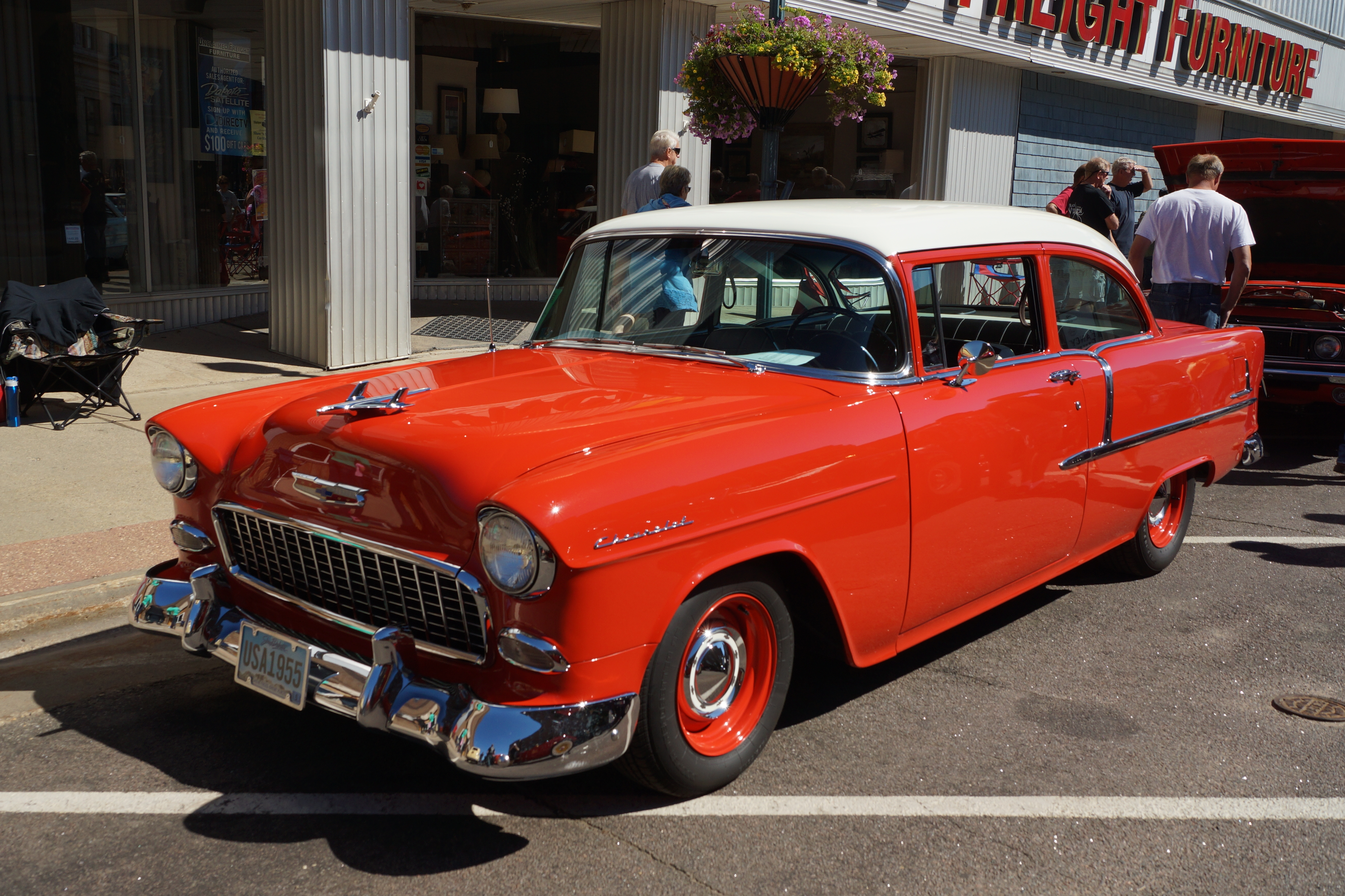 37th ANNIVERSARY VINTIQUES ROD RUN & KAMP OUT Show & Shine Uptown Watertown Watertown, South Dakota September 2016 Click here for more car pictures at my Flickr site.